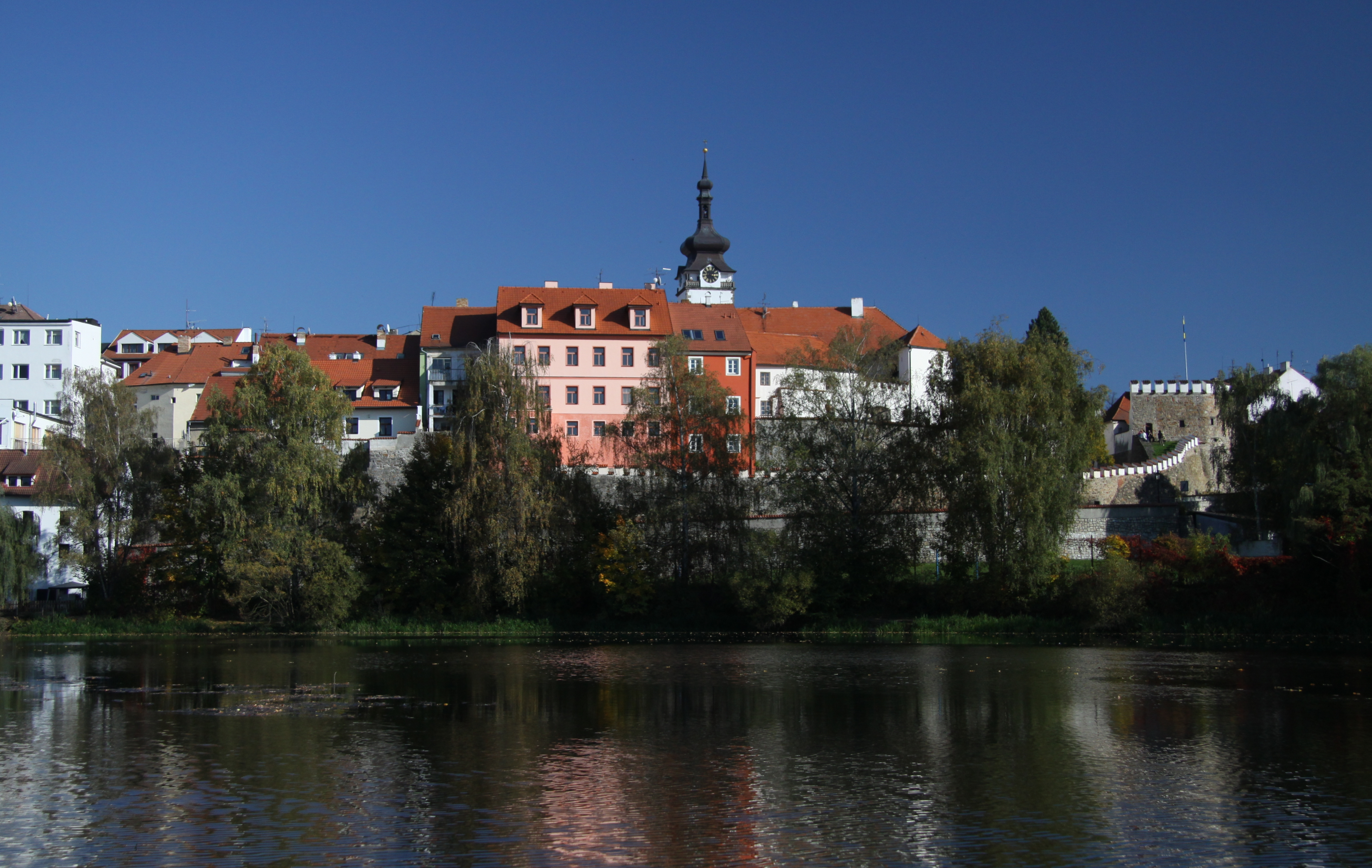 View of inner part of old town from Otava River with Church of the Nativity of the Virgin Mary, Písek, Czech Republic - Google Maps - Google Earth